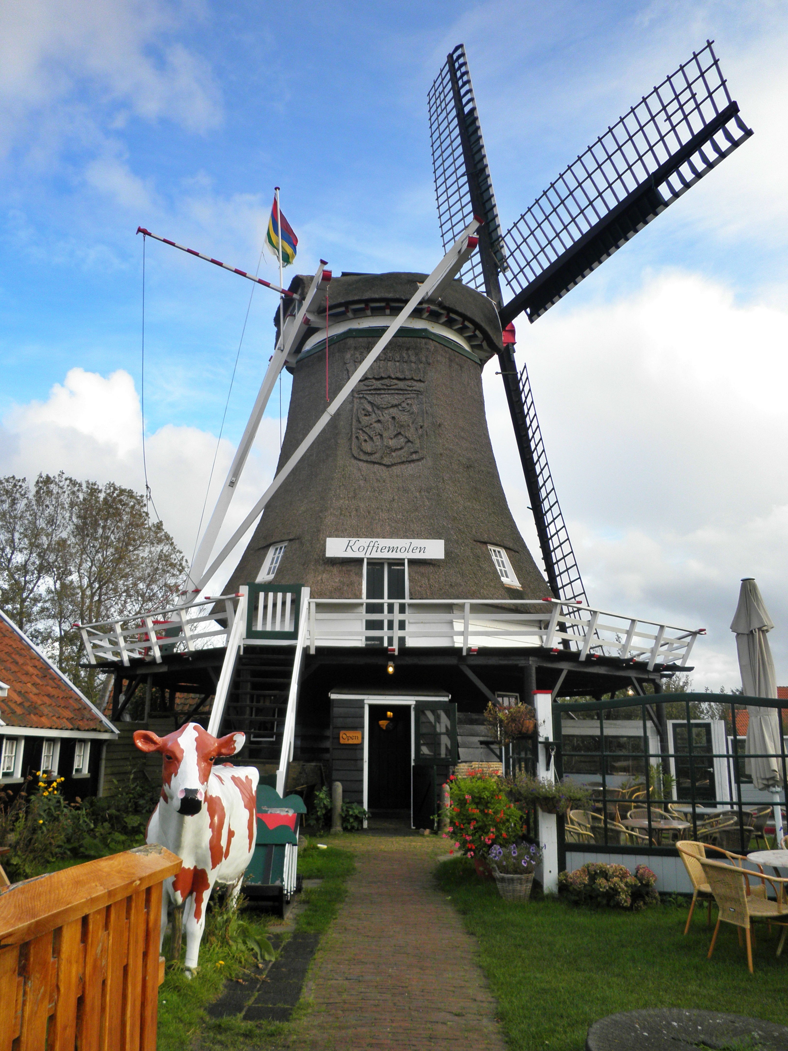 Thatched smock mill, 'De Koffiemolen' (The Coffee Mill) from 1876 at Formerum 6 on the island of Terschelling in the Netherlands.